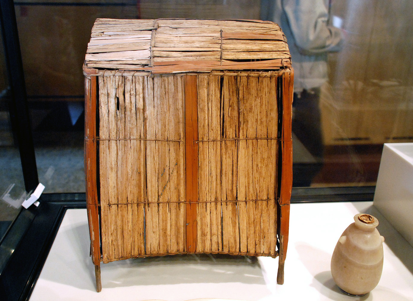 Cosmetics box of Queen Mentuhotep wife of Sekhemre-sementawy Djehuti, from Dra Abu el-Naga. Material: Wood and papyrus, Berlin. Neues Museum, AM 1176-1182 .